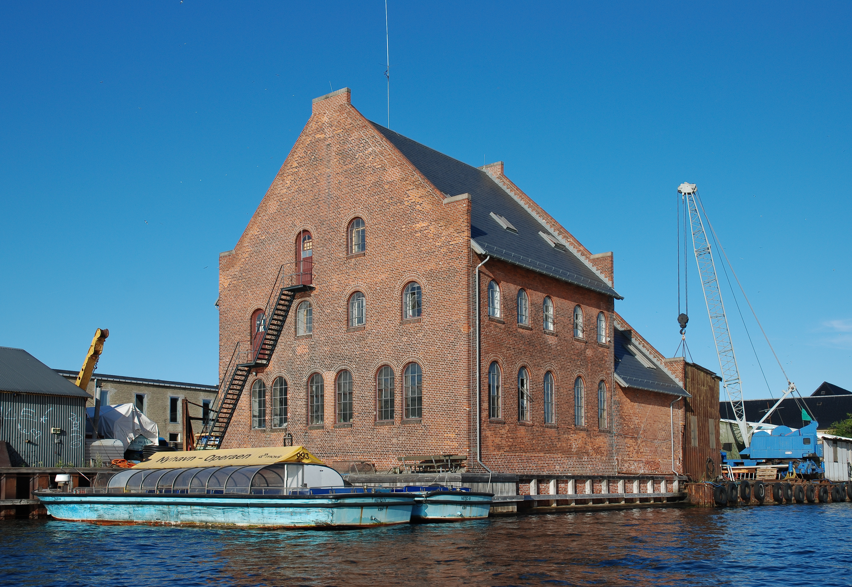 The old stores and boiler house on Christiansholm in Copenhagen.